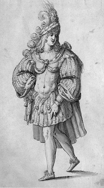 Costume for a Knight, by Inigo Jones: the plumed helmet, the "heroic torso" in armour and other conventions were still employed for opera seria in the 18th century. Inigo Jones design for a Knight in a Court masque. Pen and wash